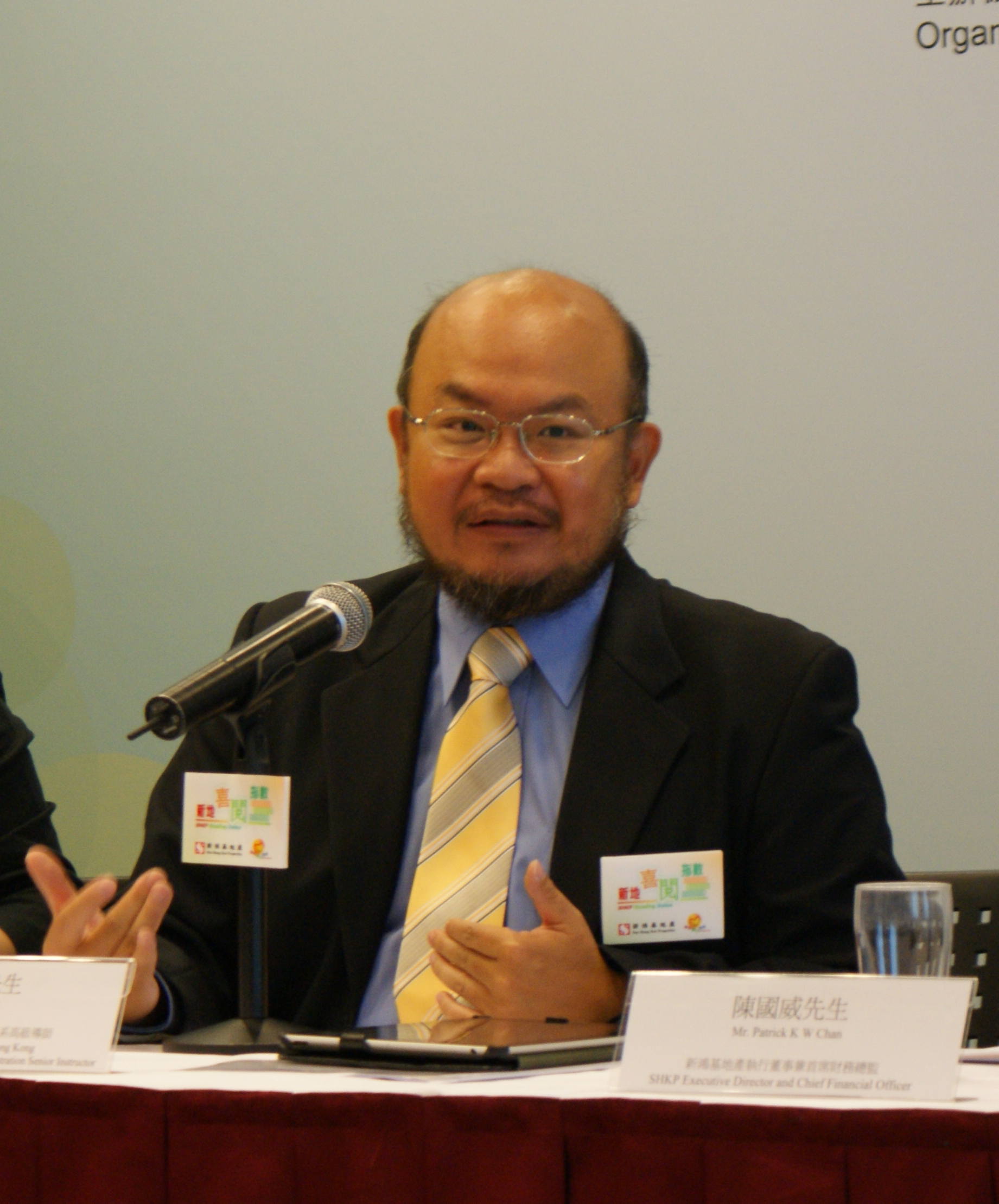 Choy, Chi-keung Ivan